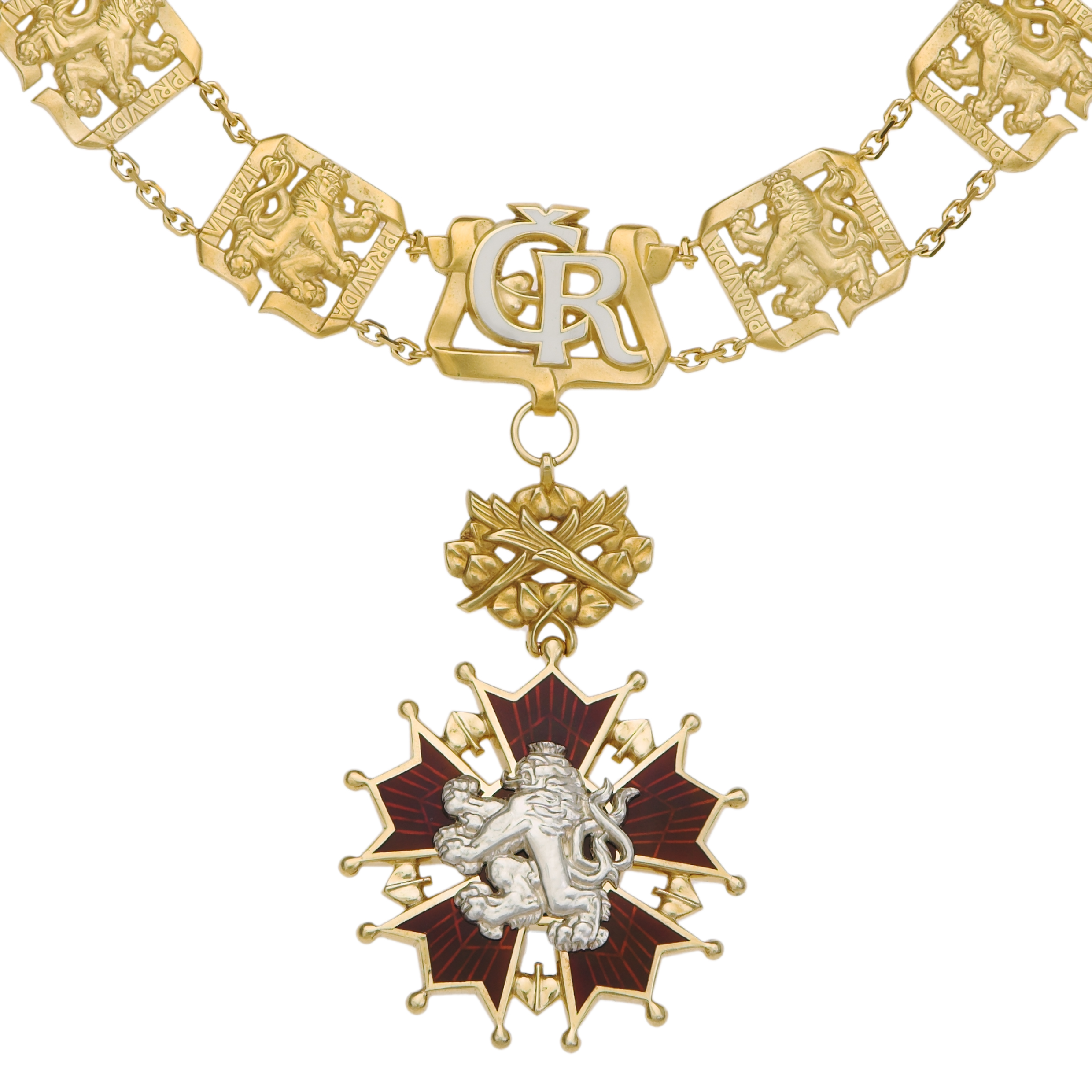 The chain of Czech Order of The White Lion